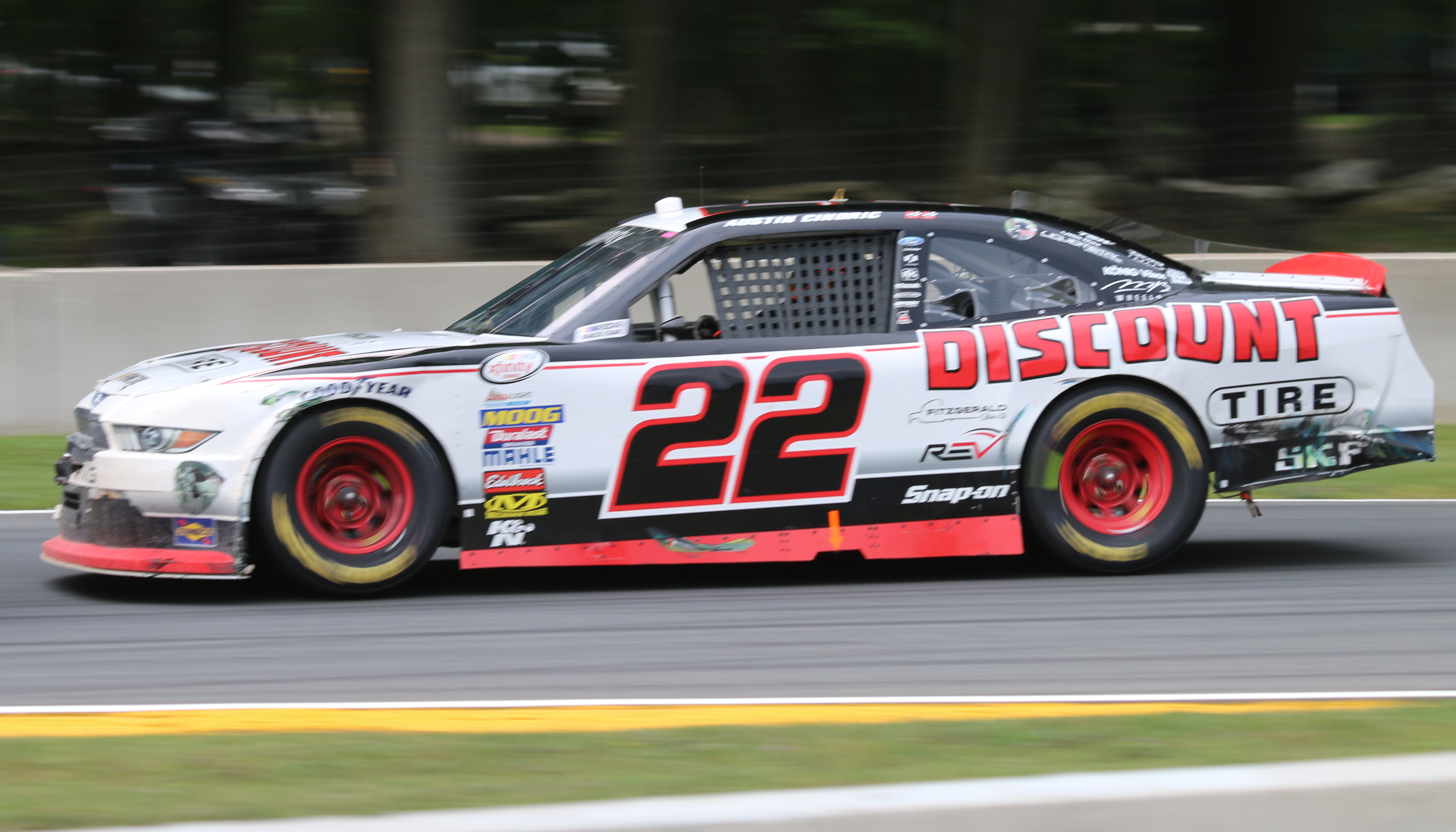 The Ford Mustang of Austin Cindric at the NASCAR Xfinity Series Johnsonville 180.